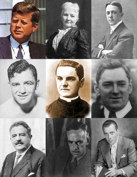 A heading image for use in the Irish American infobox.